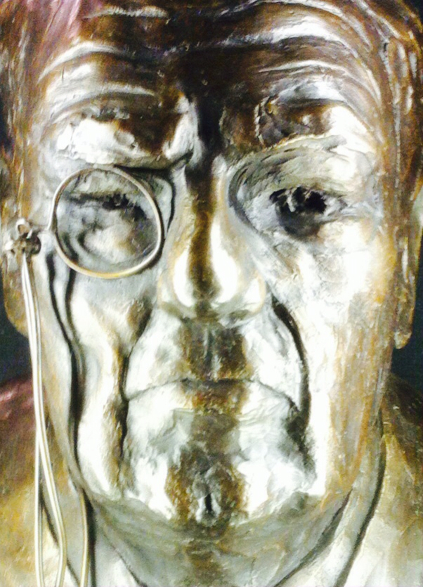 Took the boy to the National Space Museum in Leicester. He loved it. So did I. On the way out there's this bronze bust of the late Sir Patrick. We will return.